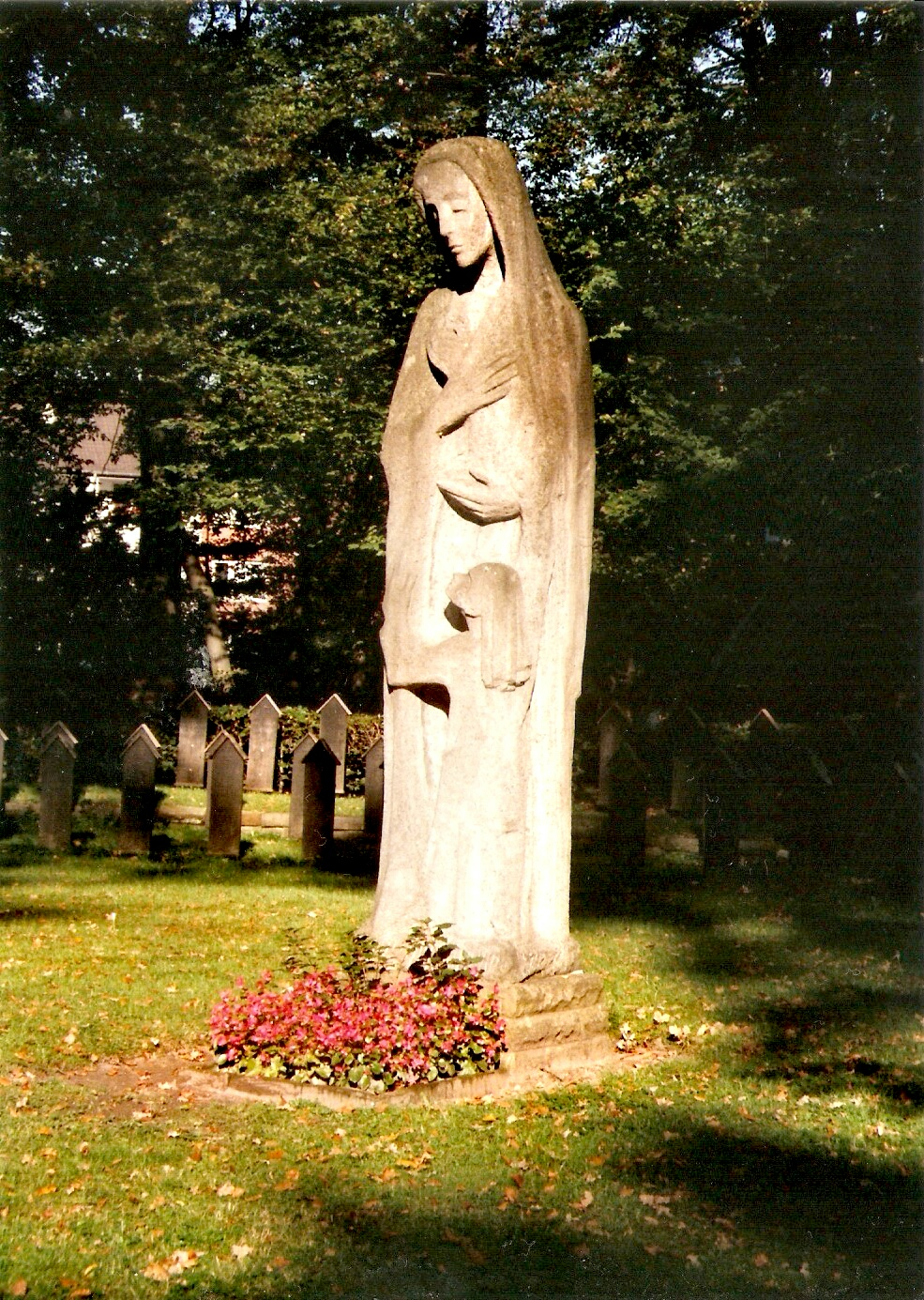 Joseph Krautwald: The Mother. Memorial for the victims of the Bombing of Lübeck on 29 March 1942